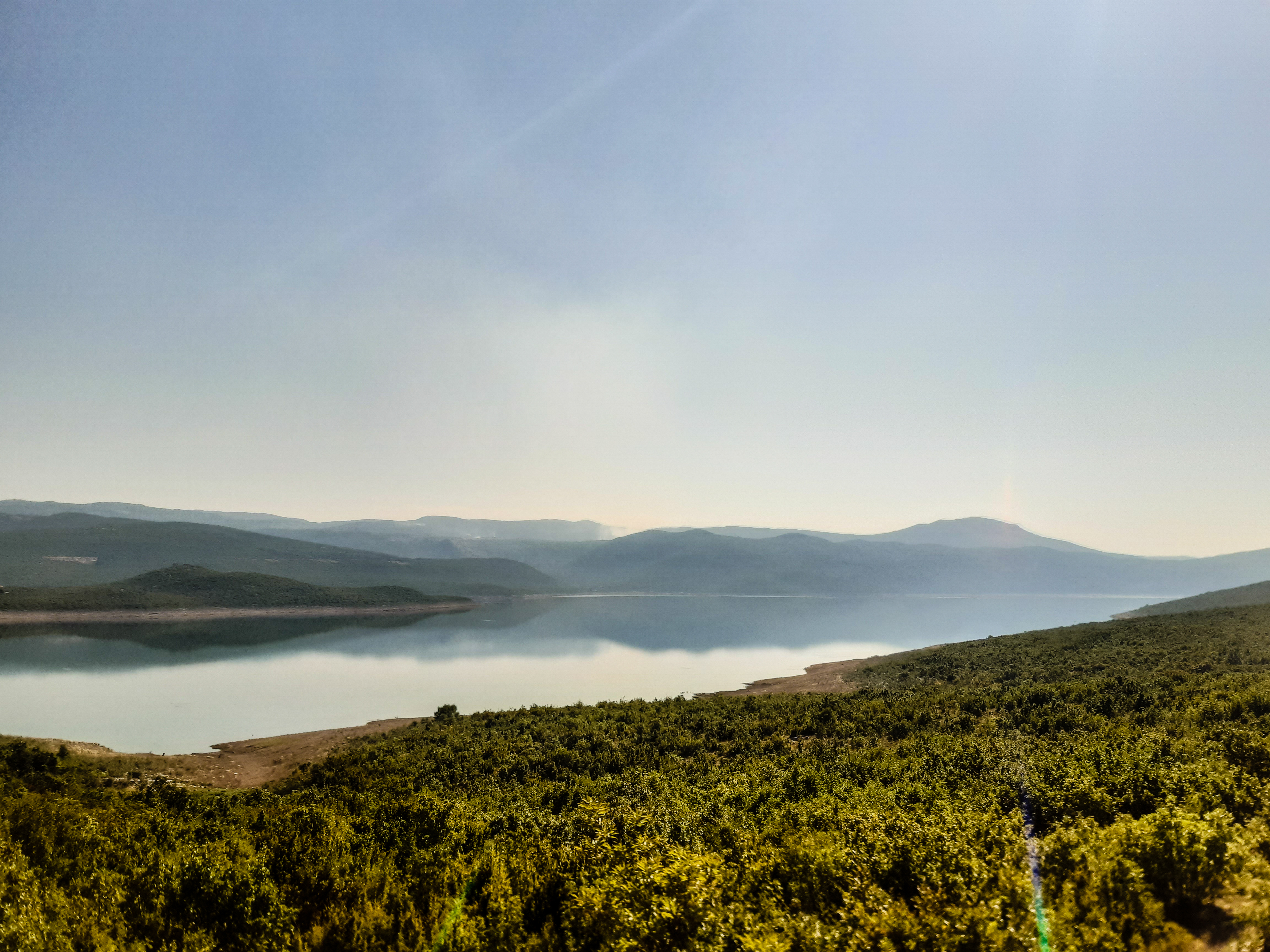 This image was uploaded as part of Trace of Soul 2019.